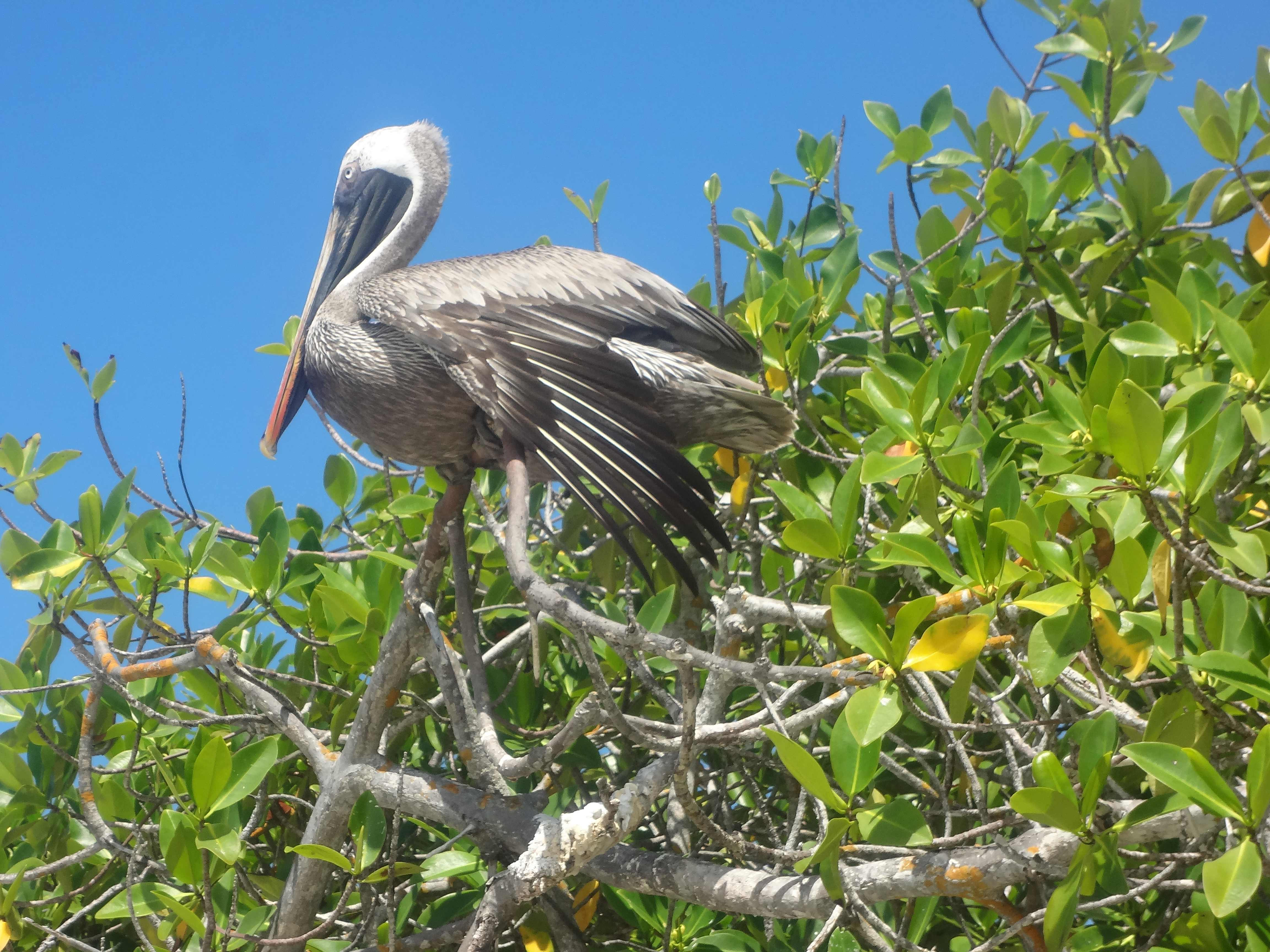 Galápagos (Pelecanus occidentalis urinator)